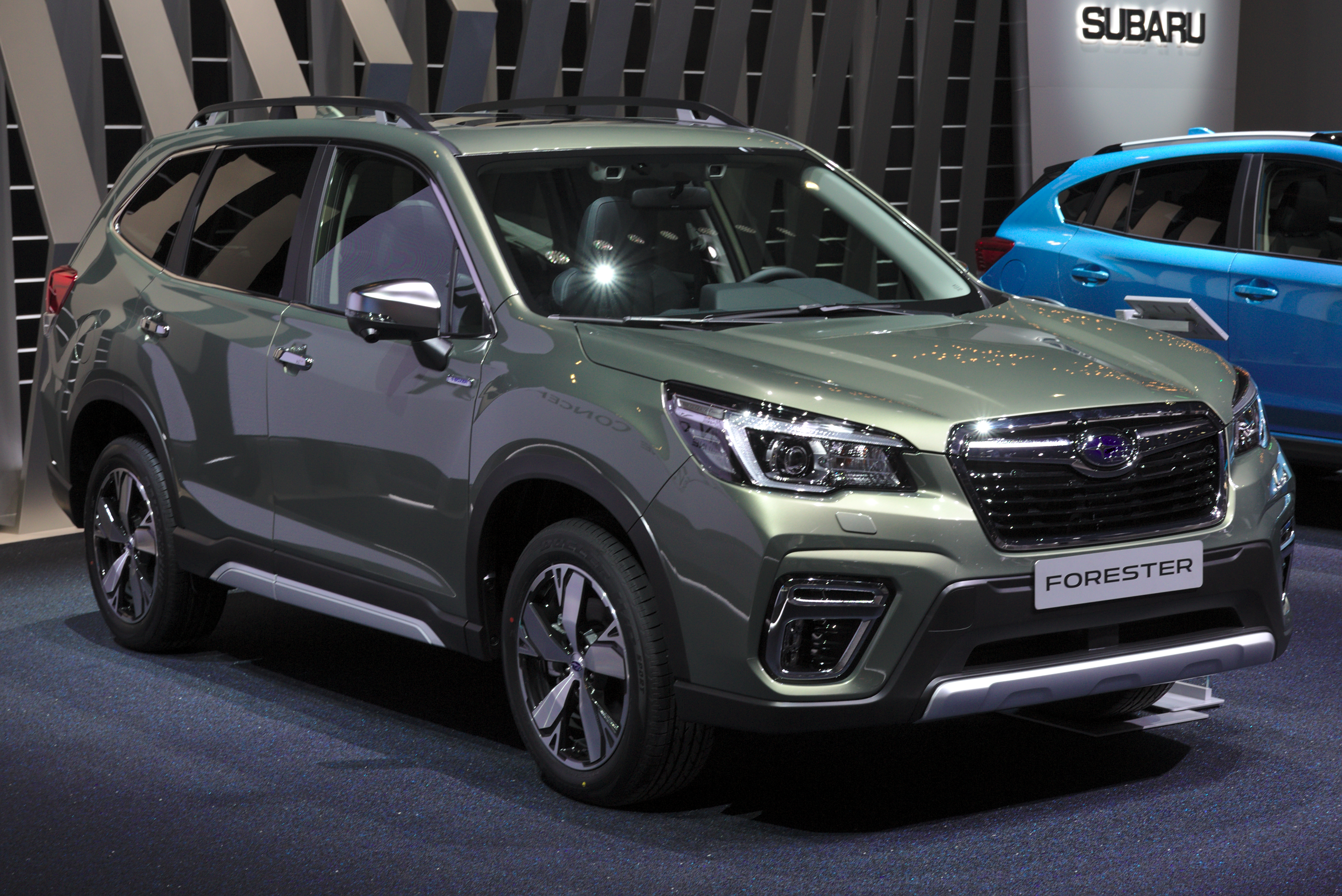 Subaru Forester at Geneva Motor Show 2019